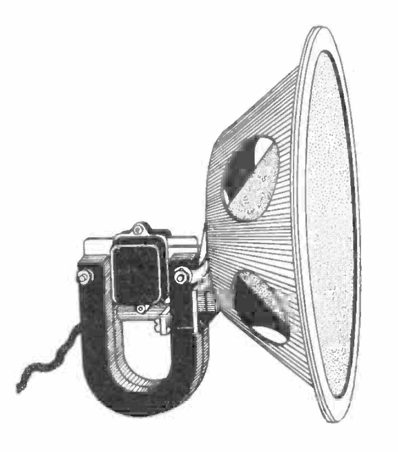 Early Paratone cone loudspeaker from advertisement in 1929 radio magazine. Loudspeakers that used a paper cone for a diaphragm replaced horn loudspeakers in the mid-1920s. Before the driver used in modern speakers, the "electrodynamic" moving-coil (voice coil) mechanism, was invented in 1924 by Chester Rice and Edward Kellogg, earlier moving-iron drivers were used, as in this early speaker. The audio signal is applied to a stationary coil, which vibrates an iron vane between the poles of a magnet, attached to the speaker cone. This type of driver had inherently higher harmonic distortion than the modern moving-coil, and with large excursions the vane could collide with the magnet poles, producing a buzzing sound. The speaker sold for $6.00, while the driver unit alone sold for $3.50 to allow the user to build his own speaker by attaching the driver to a light diaphragm of wood or paper.